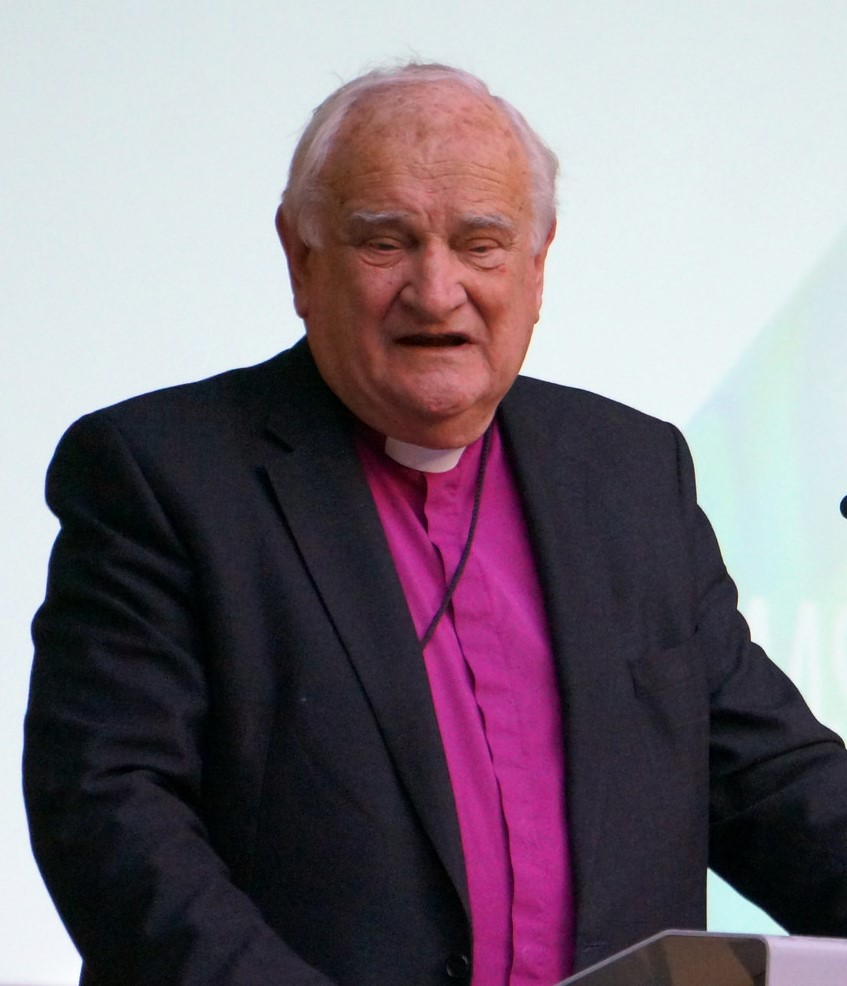 Lord Robin Eames, former Anglican Archbishop of Armagh